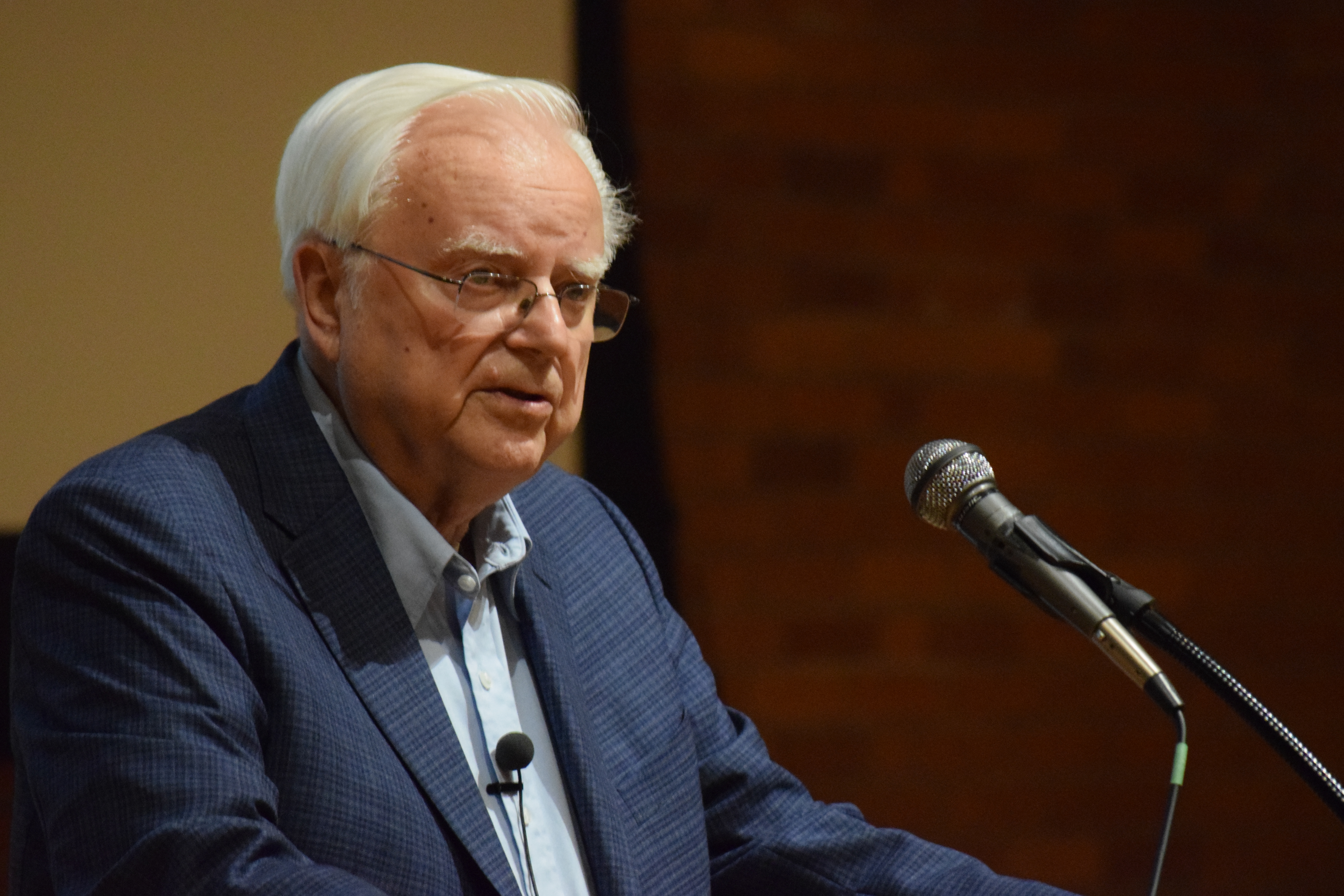 Astronomer Frank Drake speaking at Cornell University in Schwartz Auditorium, 19 October 2017